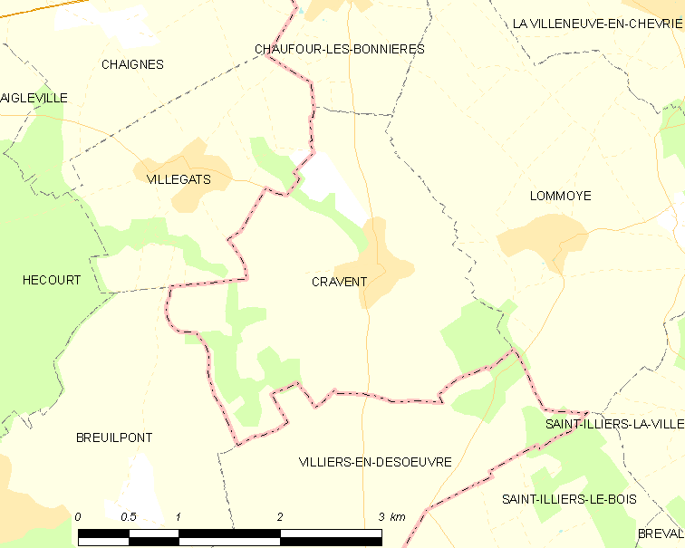 Map of French municipality Cravent